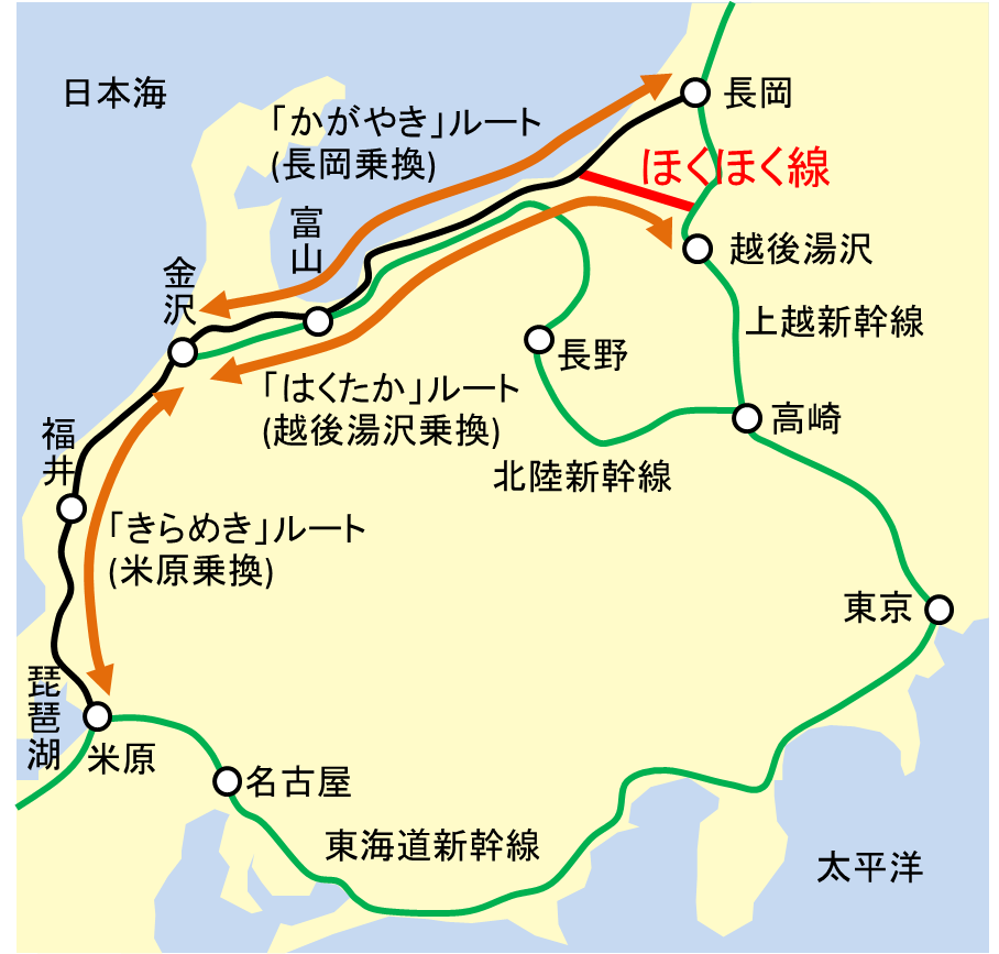 Route comparison between Tokyo and Hokuriku